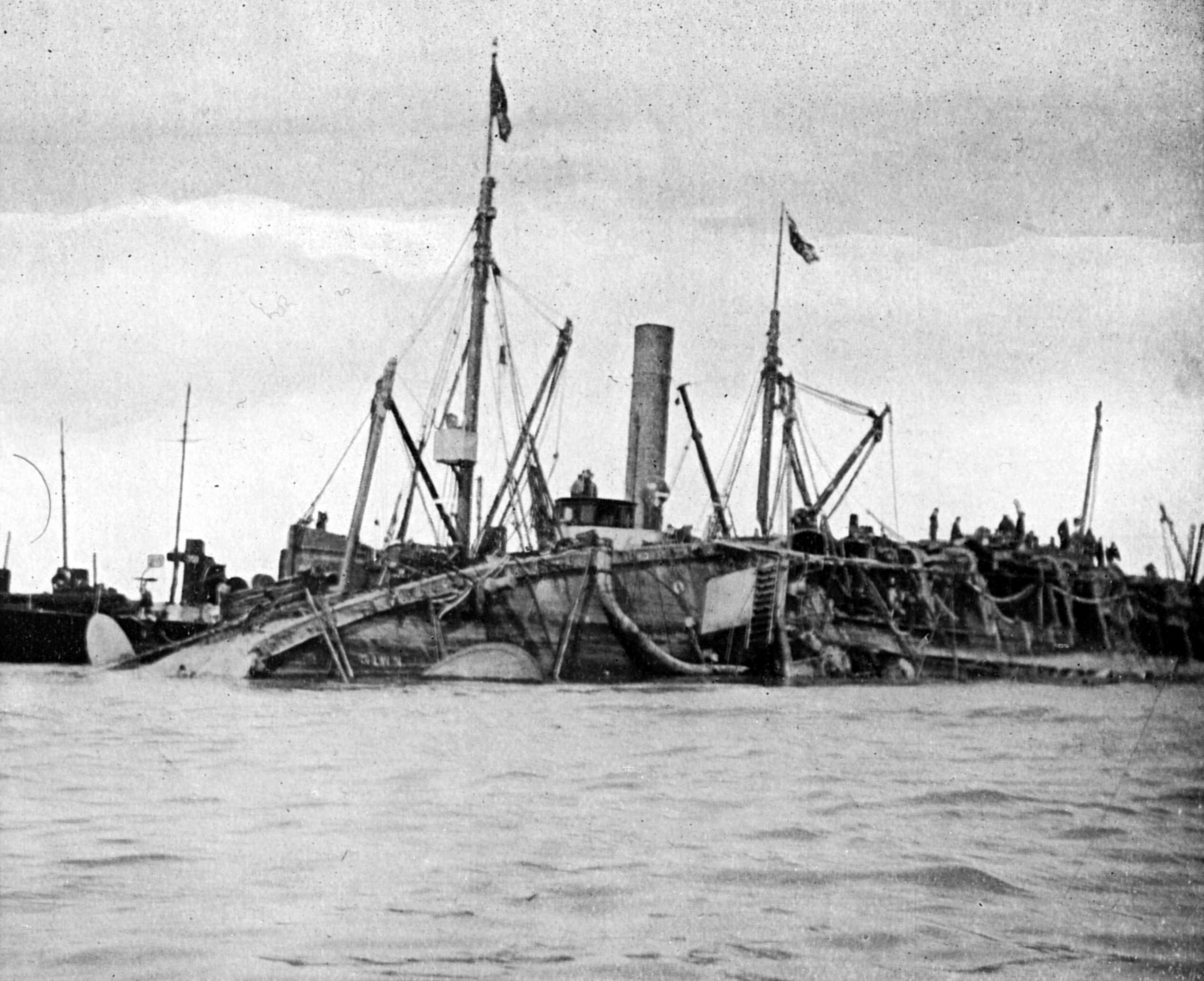 Raising of HMS Gladiator after the collision with SS Saint Paul which occurred 25 April 1908 near the Isle of Wight